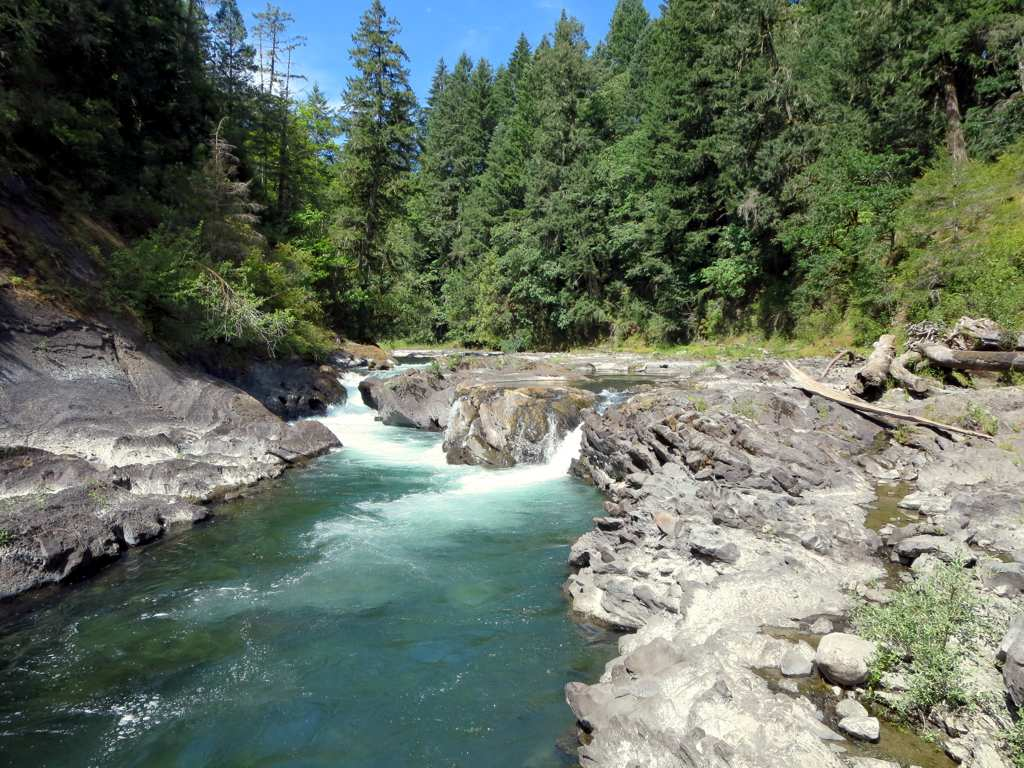 The Cowichan River rushes through Marie Canyon in Cowichan River Provincial Park on Vancouver Island, Canada.